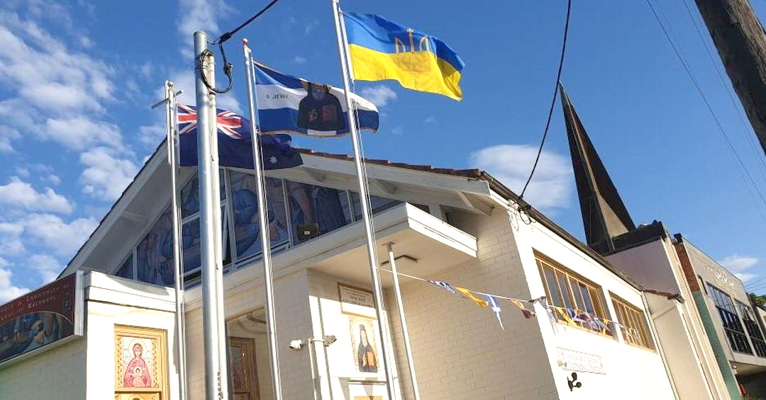 St Savvas of Kalymnos Orthodox Church Banksia is located on the Princes Hwy in Banksia, and is a landmark of the Suburb having been prior the Historical Banksia Free Church.